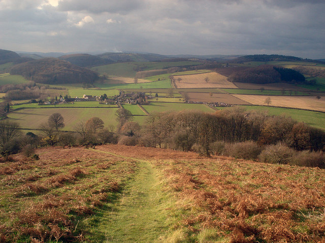 Footpath to Yatton Looking west down and then along what is virtually a straight-line path to the few houses which make up Yatton in the valley bottom.